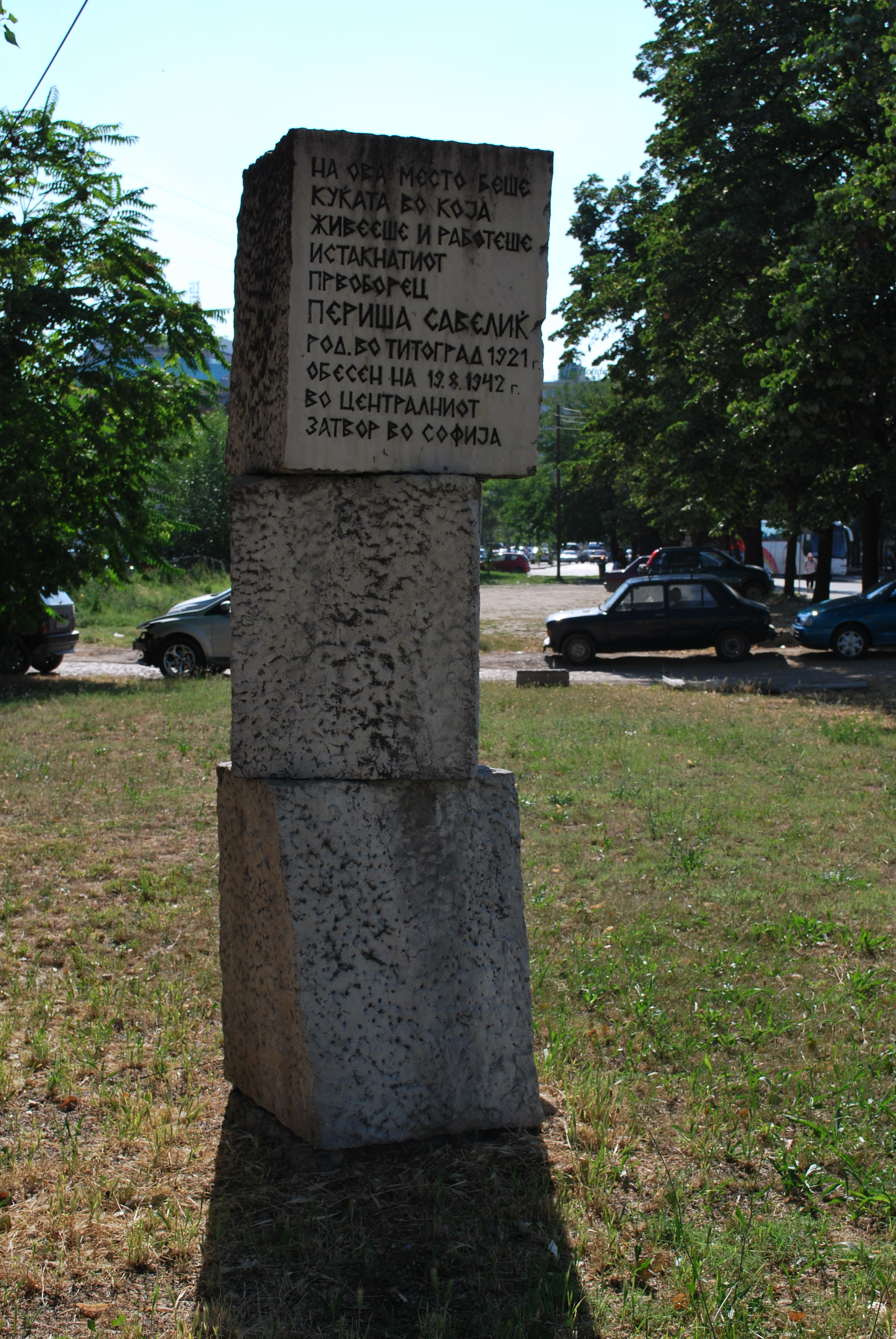 Monument of Periša Savelić in Skopje, Macedonia